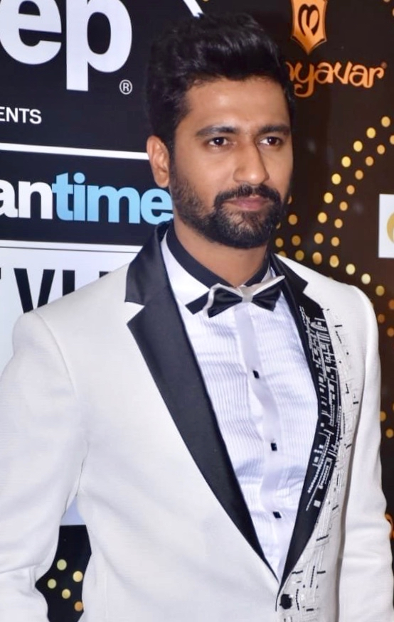 Vicky Kaushal at the Hindustan Times India Most Stylish Awards 2019